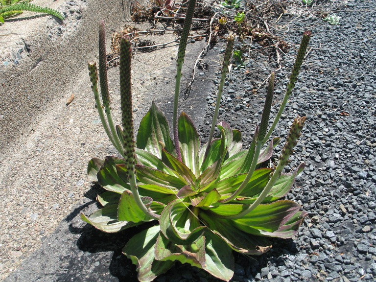 Plantago subnuda at Point Reyes National Seashore (Marin County, California, US). Photos copyrighted as, "Robert Steers/NPS," are public domain and can be used without requesting permission but please give credit."